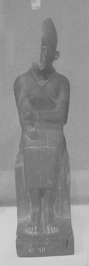 Statuette of Khasekhemwy from Cairo Museum